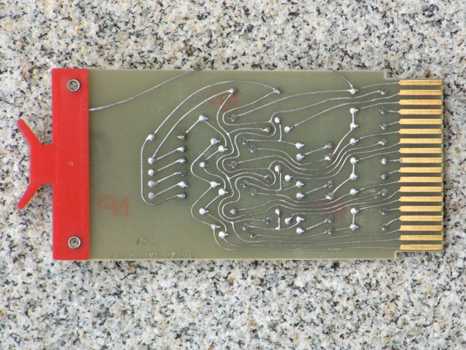 S111 Flip Chip (trademark) module from a PDP-8 computer, solder side. This module is a triple 2-input Nand gate made with discrete component diode-transistor logic (there is one Hybrid integrated circuit on the board, but the board is etched and drilled for the 5 discrete components that could replace that module.) The text etched on the board says "DIODE GATE R111 / 6 67" (implying a board design from 1967).